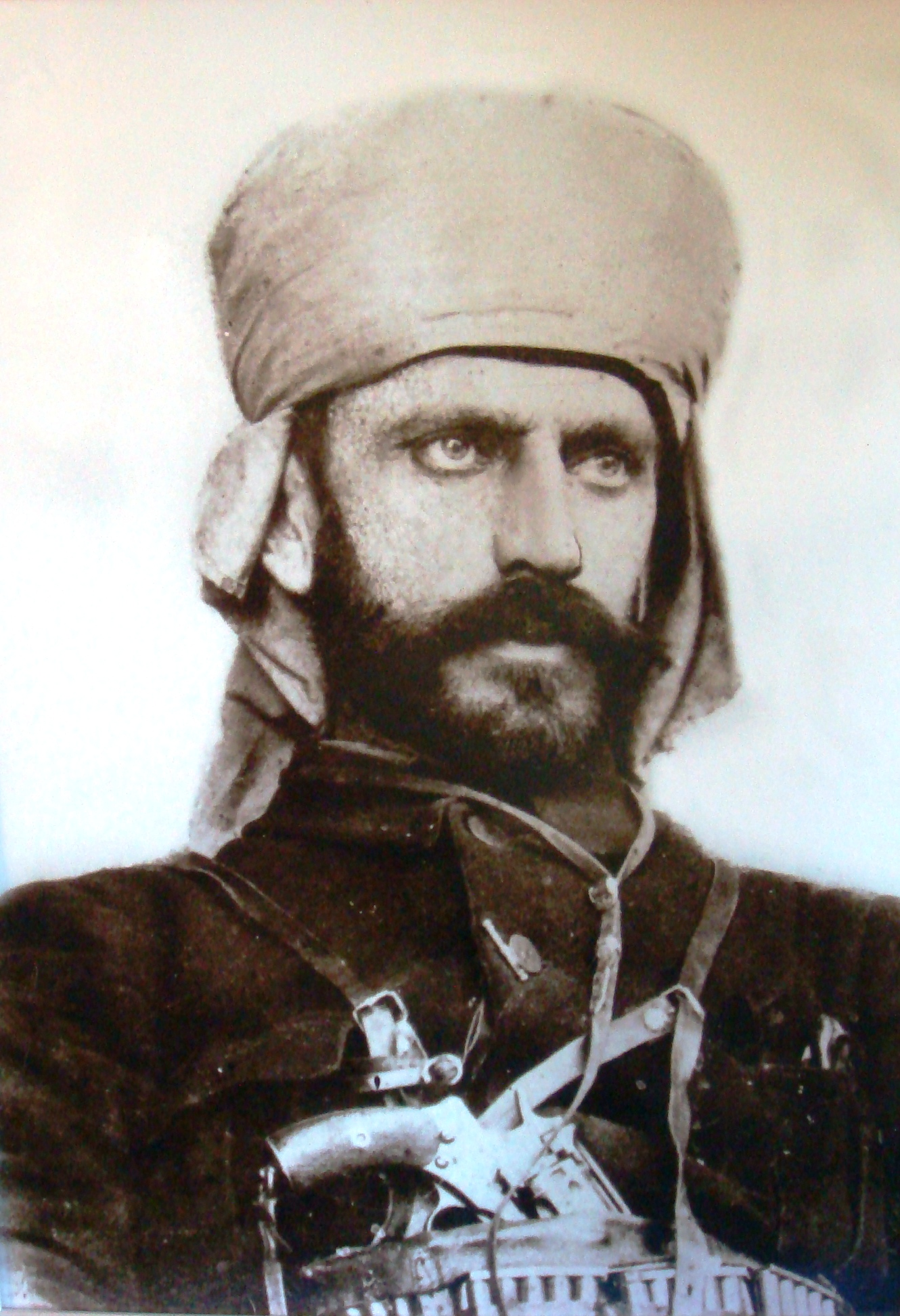 Mehmed Nedjati Bey (Mehmet Necati Memişoğlu, 1879-1959)